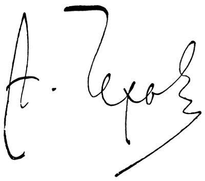 Signature of Anton Chekhov.